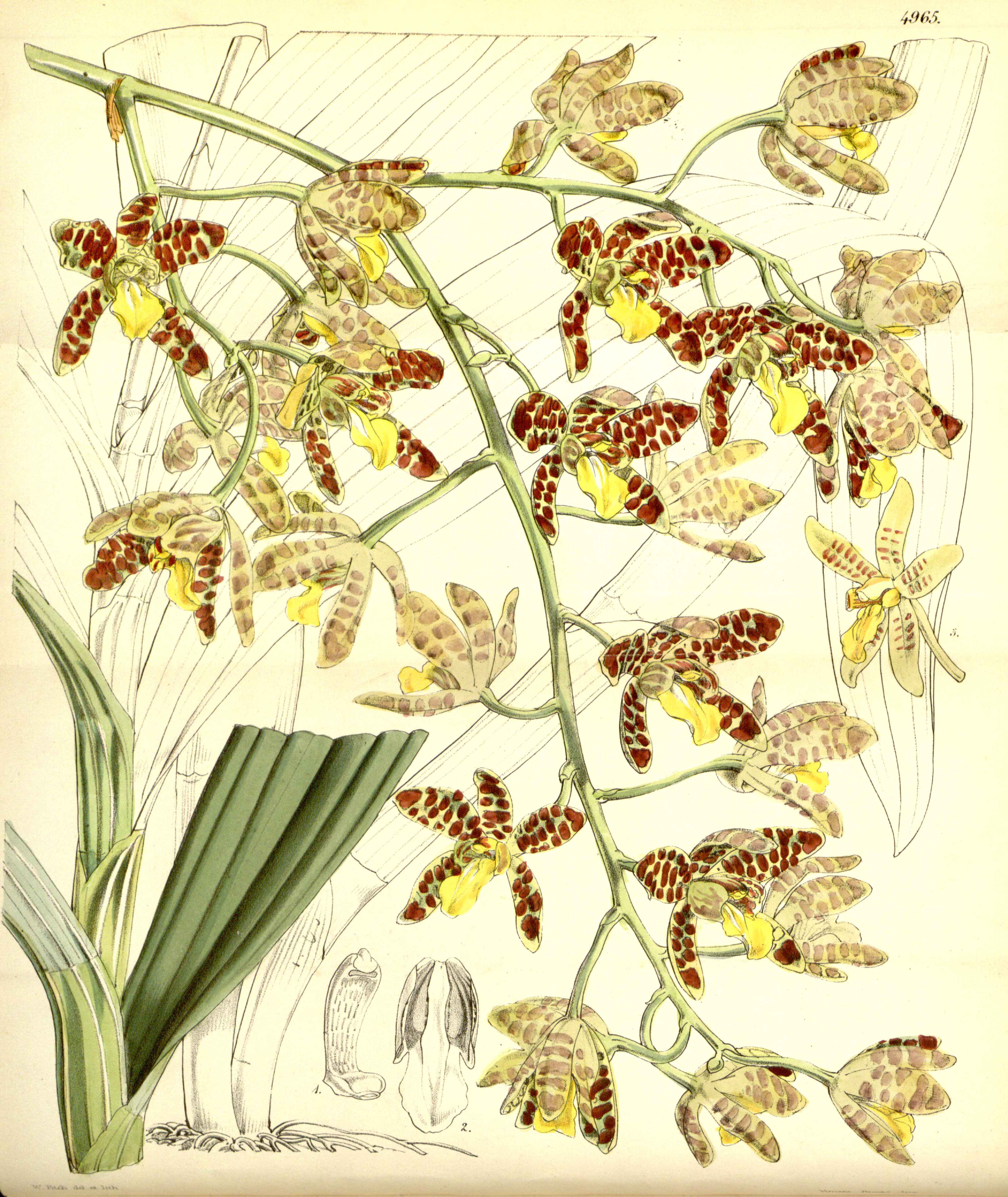 Illustration of Ansellia africana